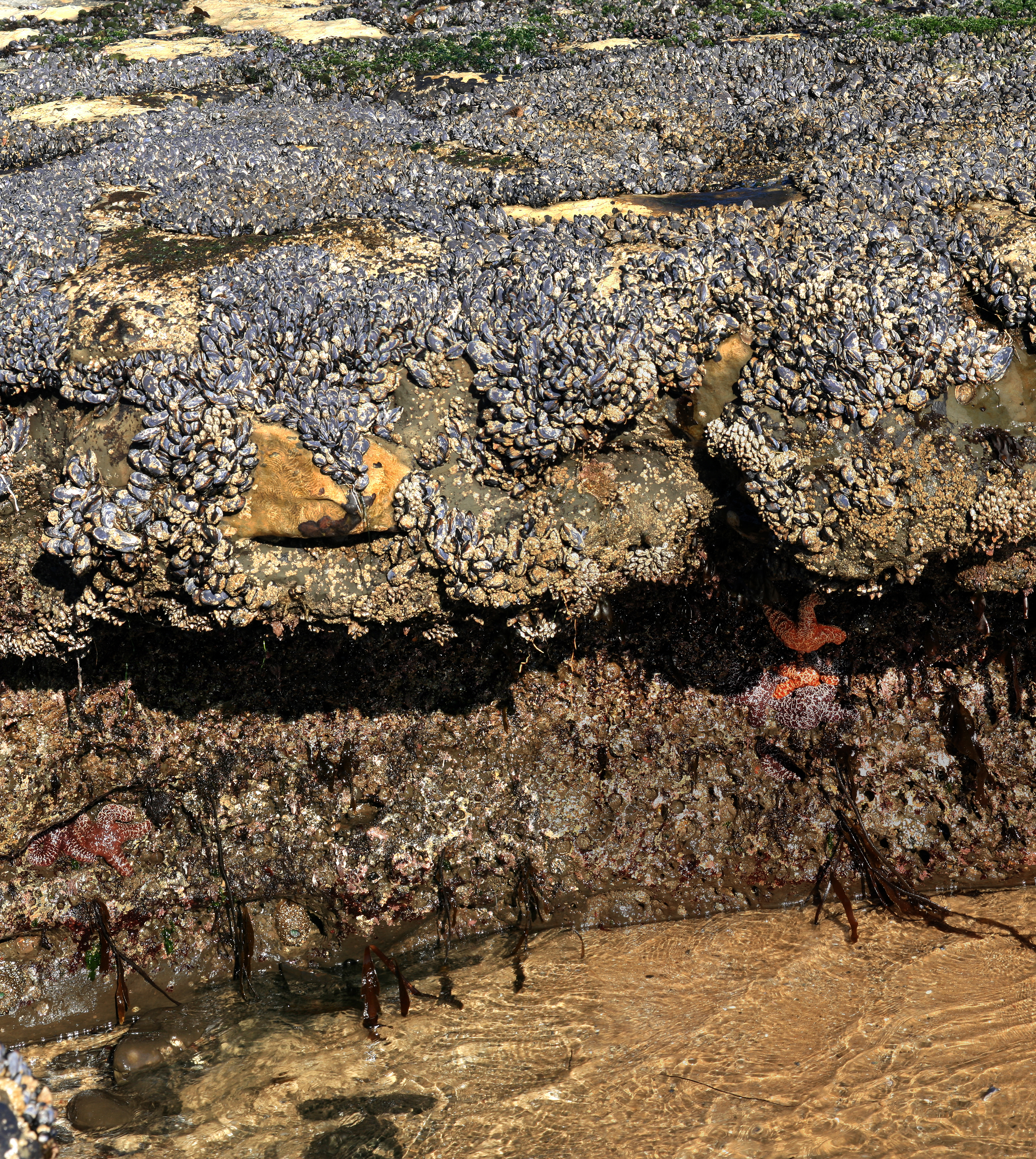 Tidepool in Santa Cruz at low tide.